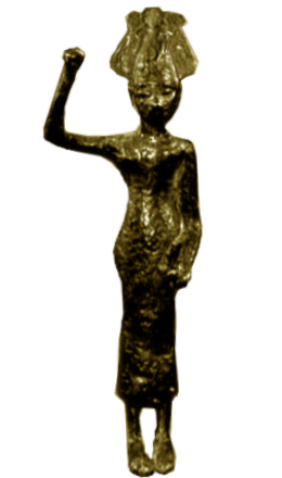 Anat (Anath), Canaanite goddess